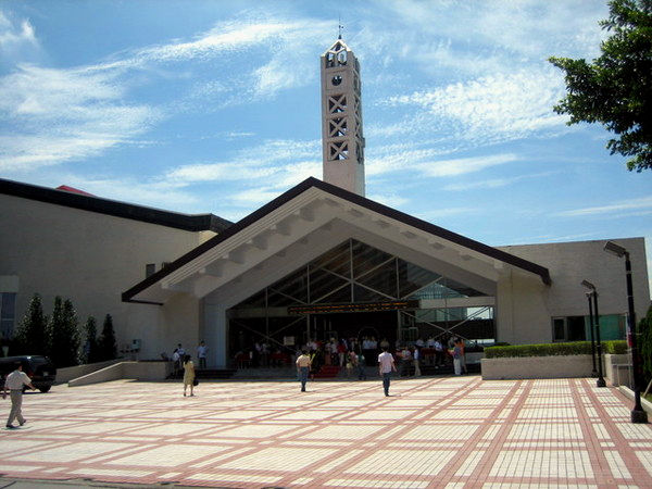 Chang Gung University activity center